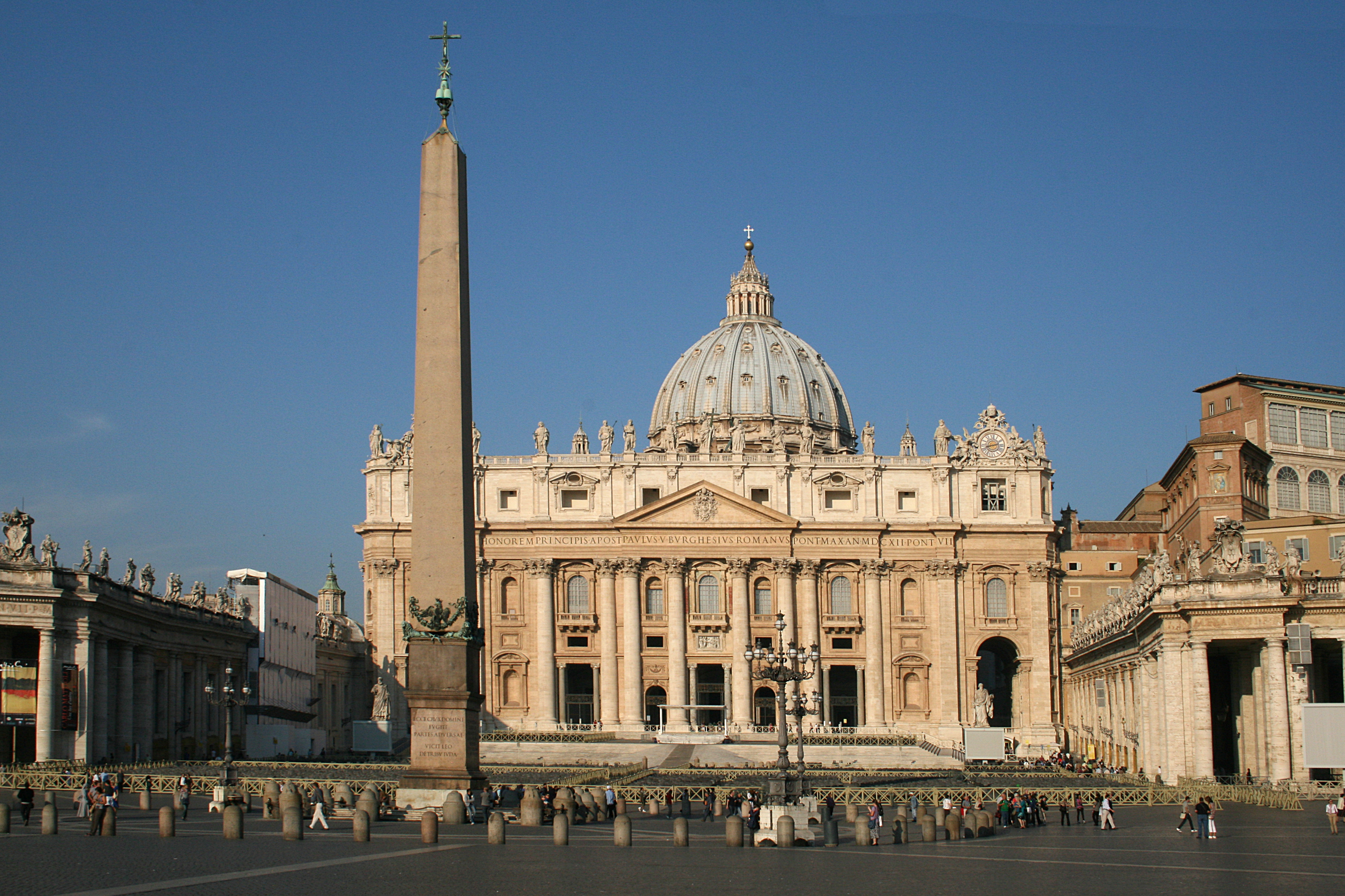 The St. Peter's Square before the St. Peter's Basilica and the Vatican Obelisk.